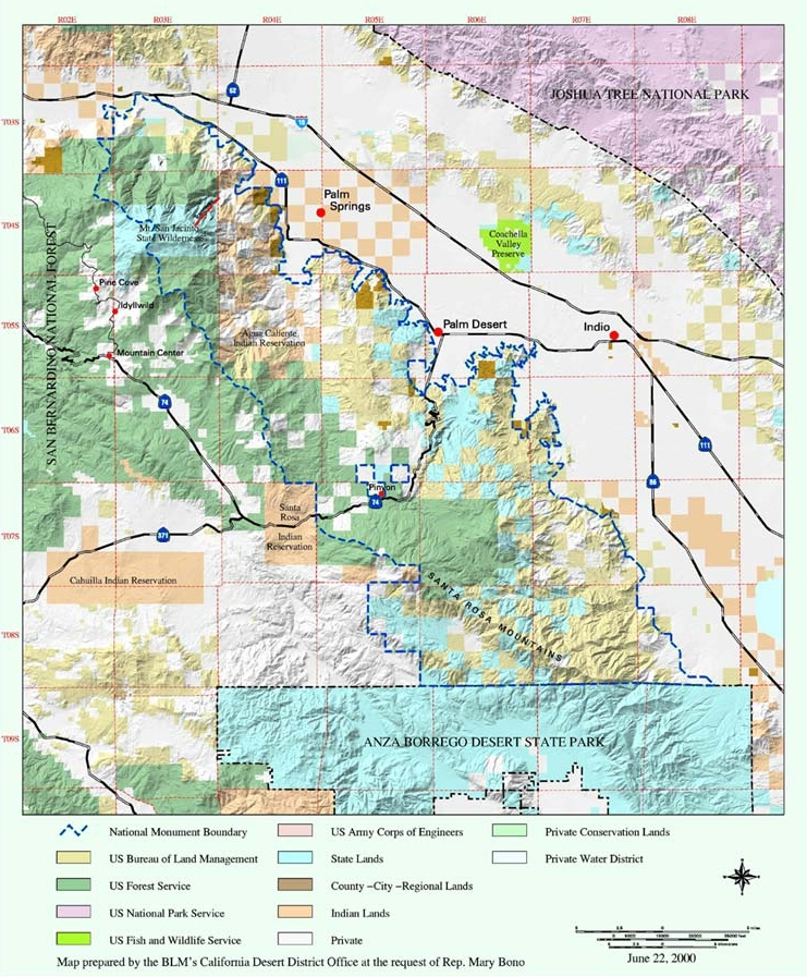 Map of the Santa Rosa and San Jacinto Mountains National Monument. Located in Riverside County and San Diego County, Southern California.